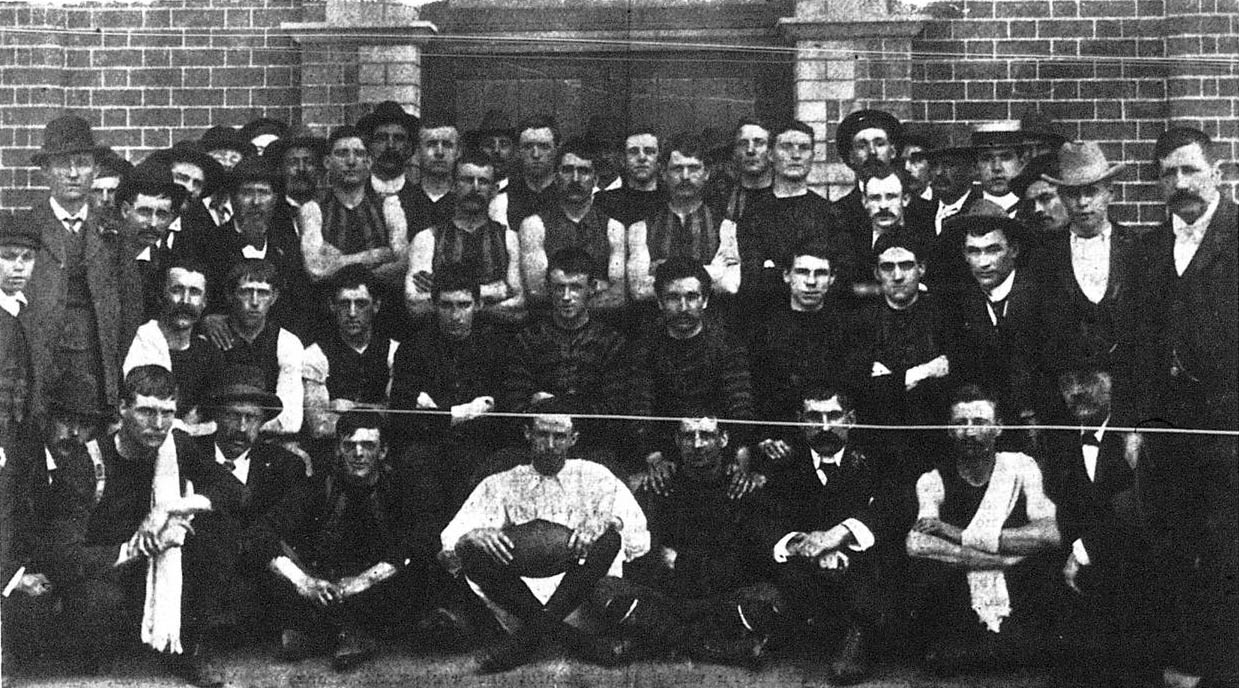 Team of Richmond FC, VFA premiers